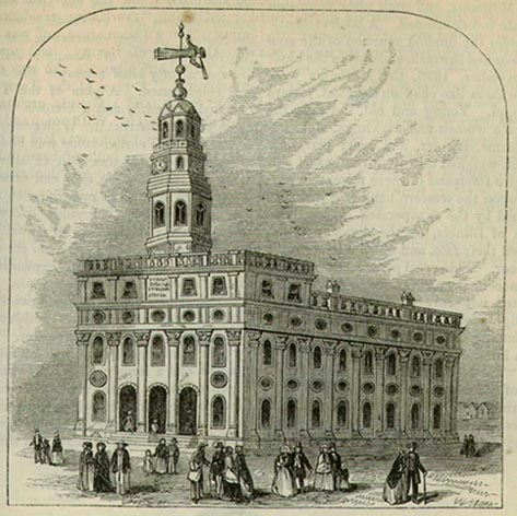 The original Nauvoo Temple of the Latter Day Saint movement built in Nauvoo,Illinois. Original caption (cropped) said "Mormon Temple at Nauvoo".